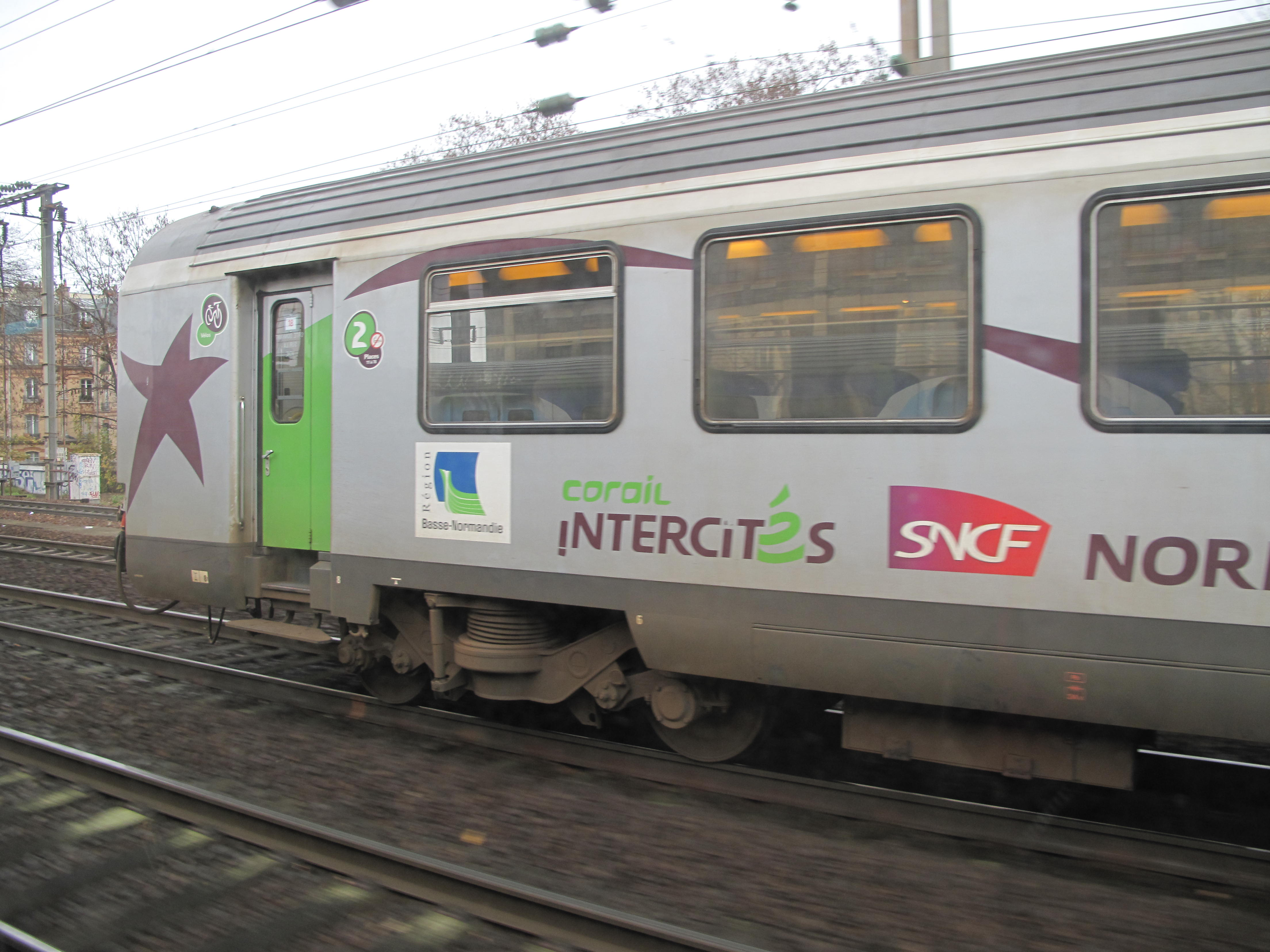 french railways coaches "corail" of the region of Normandy, near gare Saint-Lazare, Paris